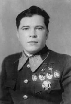 Very early 1940's Soviet Postal card featuring Generals Sergey Denisov, Yakov Smushkevich, and Grigory Kravchenko.